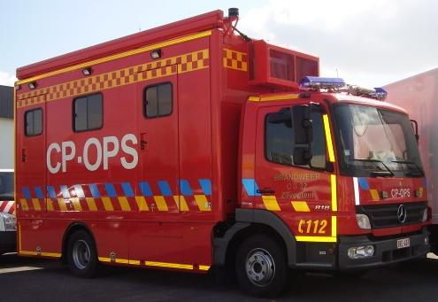 PHOTO